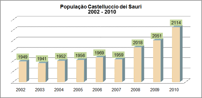 Population Casteluccio dei Sauri (Foggia, Italy) 2002-2010